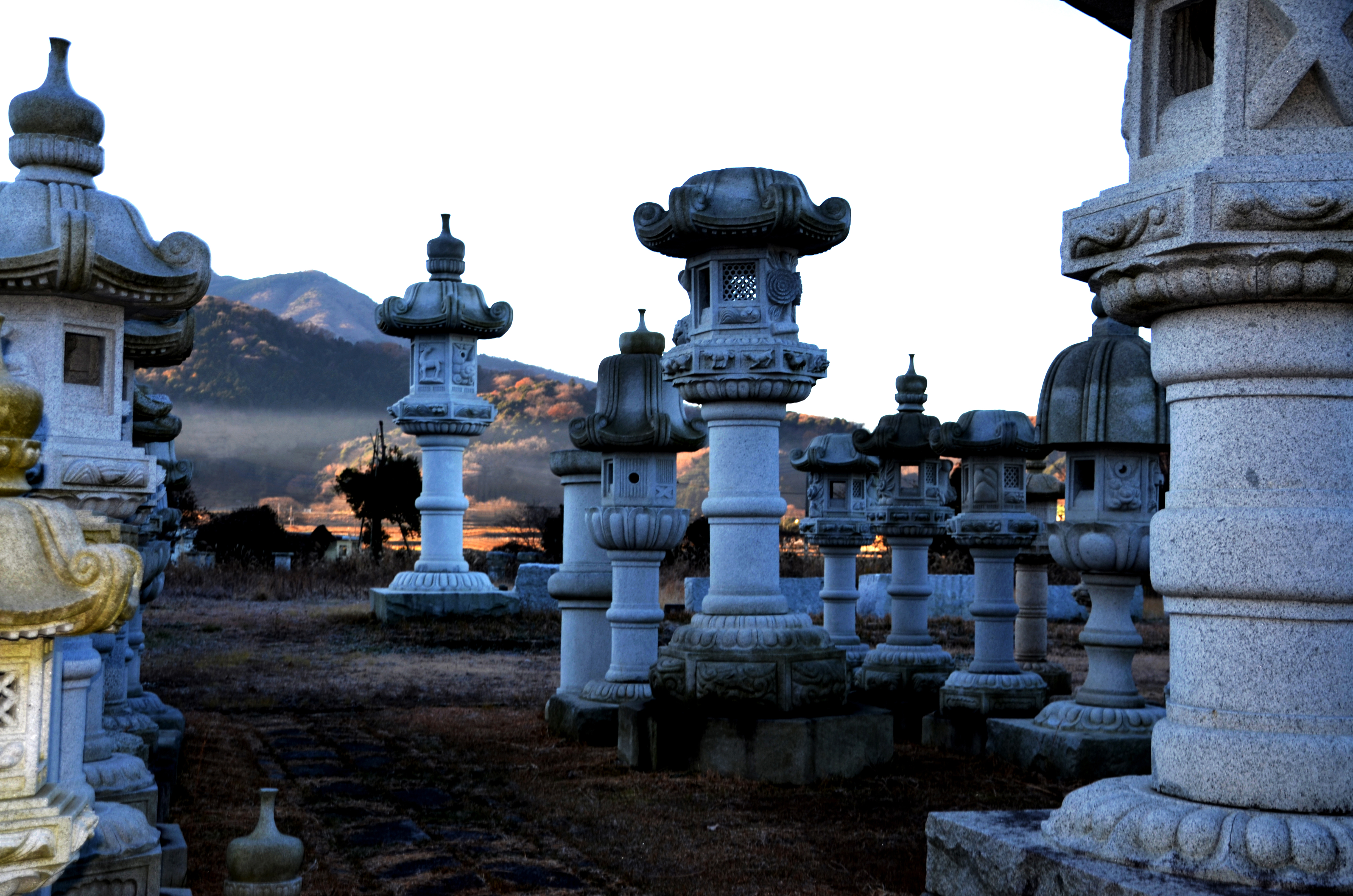 Makabe stone lantern, Sakuragawa City, Ibaraki Prefecture, Japan.